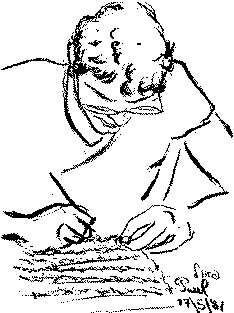 Composer Ofer Ben-Amots as a student in Germany in 1981